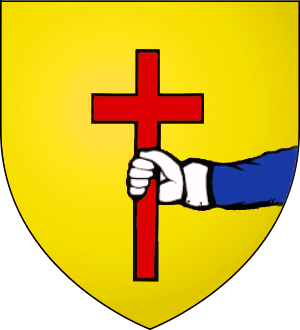 Coat of arms of the O'Donnell Clan who were Kings of Tyrconnell.